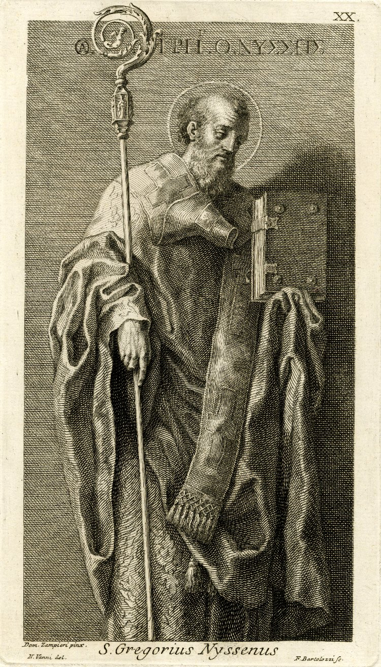 Saint Gregory of Nyssa. By Francesco Bartolozzi after Domenichino.